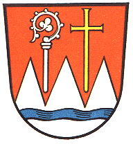 Coat of Arms of Oberthulba